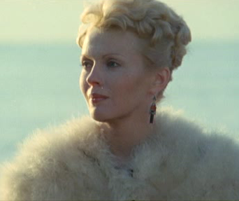 screenshot from the film Camorra (1972)